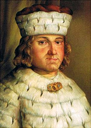 Frederick I, Elector of Brandenburg (1371-1440), House of Hohenzollern